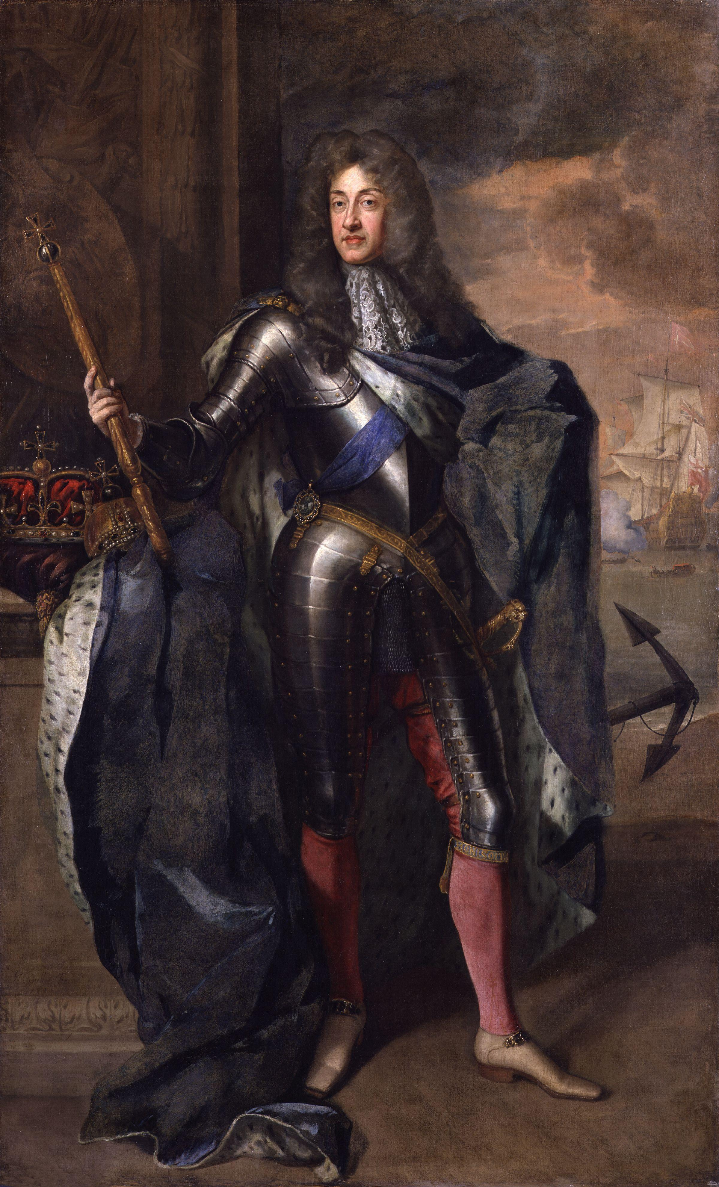 King James II, by Sir Godfrey Kneller, Bt (died 1723).